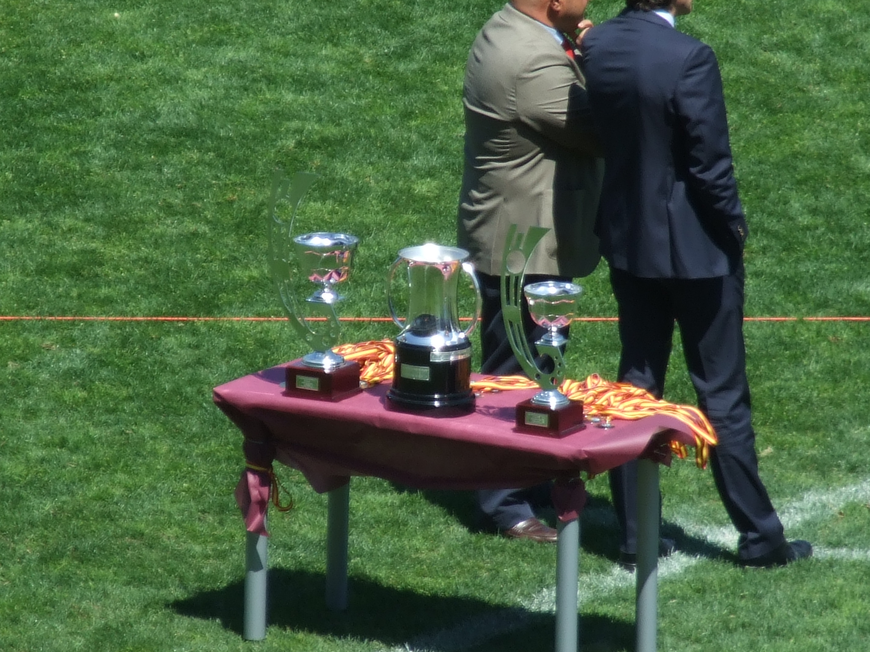 Copa del Rey de Rugby 2013, 5 de mayo. VRAC Quesos Entrepinares ante AMPO Ordizia.